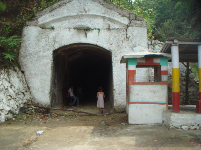 Churia Tunnel - the first road tunnel in Nepal. Located in the Churiamai VDC of Makwanpur district, now closed